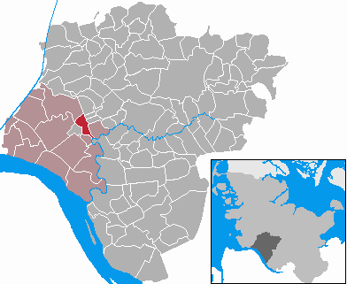 This map shows the area of the municipality Landrecht in the Kreis (district) Steinburg, Schleswig-Holstein, Germany.